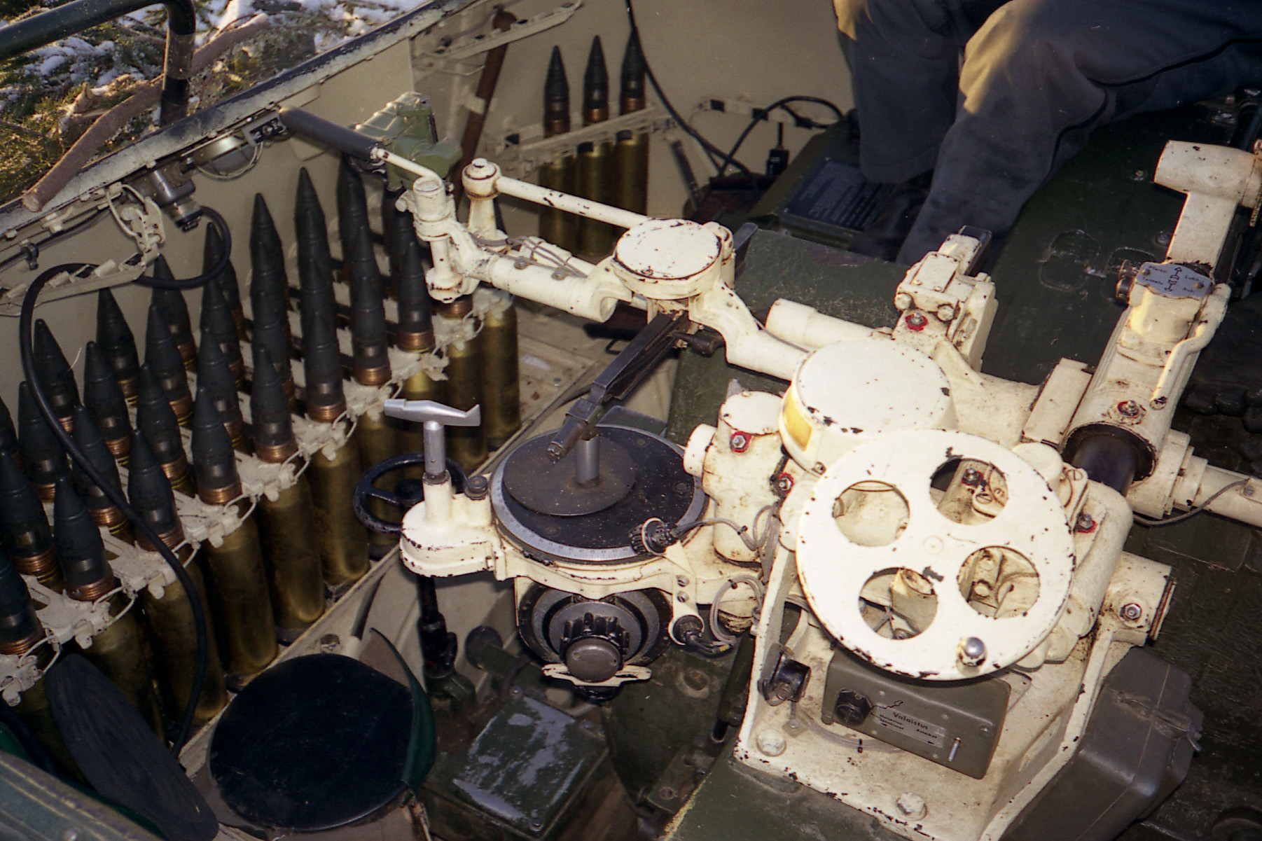 The sight adjuster of finnish ZSU-57-2M. Sight adjuster on the right and gunners sight's on the left. On the backround 57mm armor-piercing ammunition.